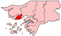 Map of Guinea-Bissau showing Biombo region.